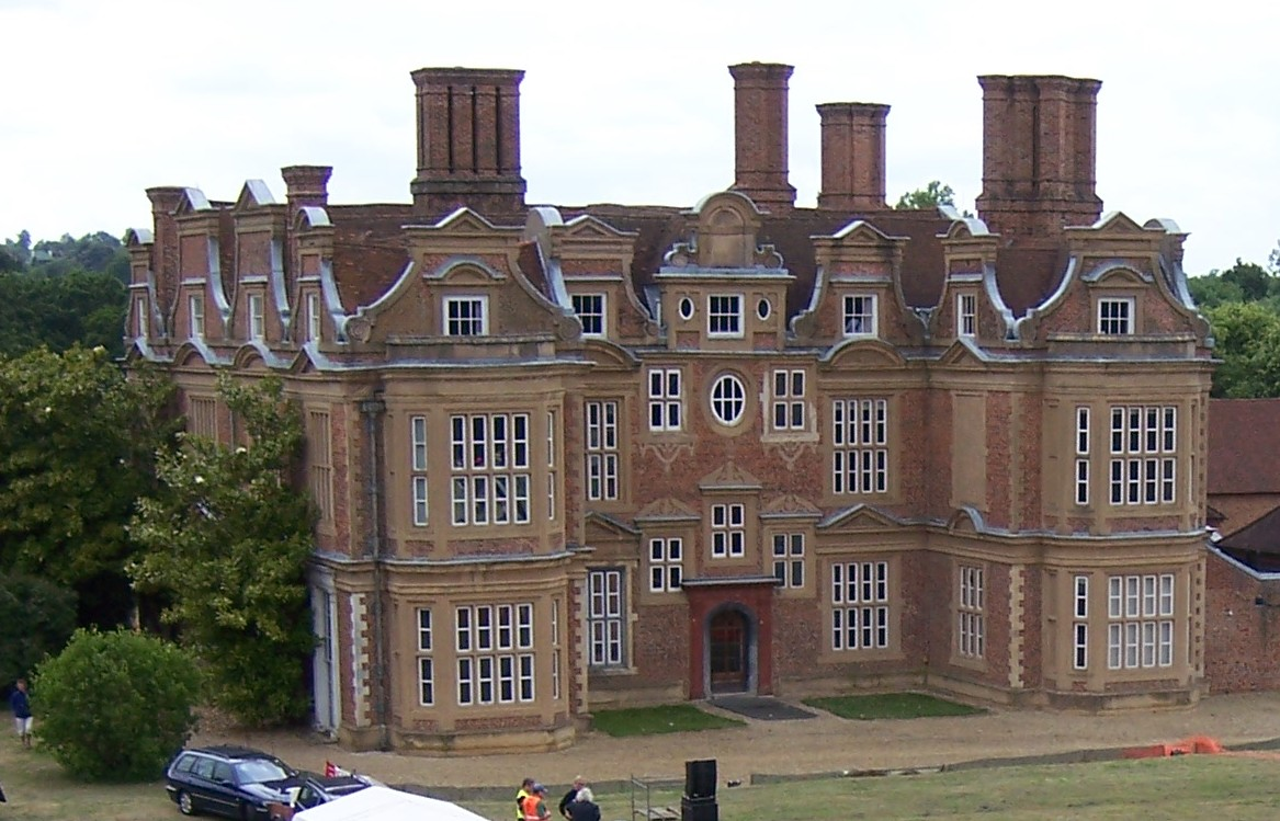 Part of the 2010 Ickenham Festival within the grounds of Swakeleys House.